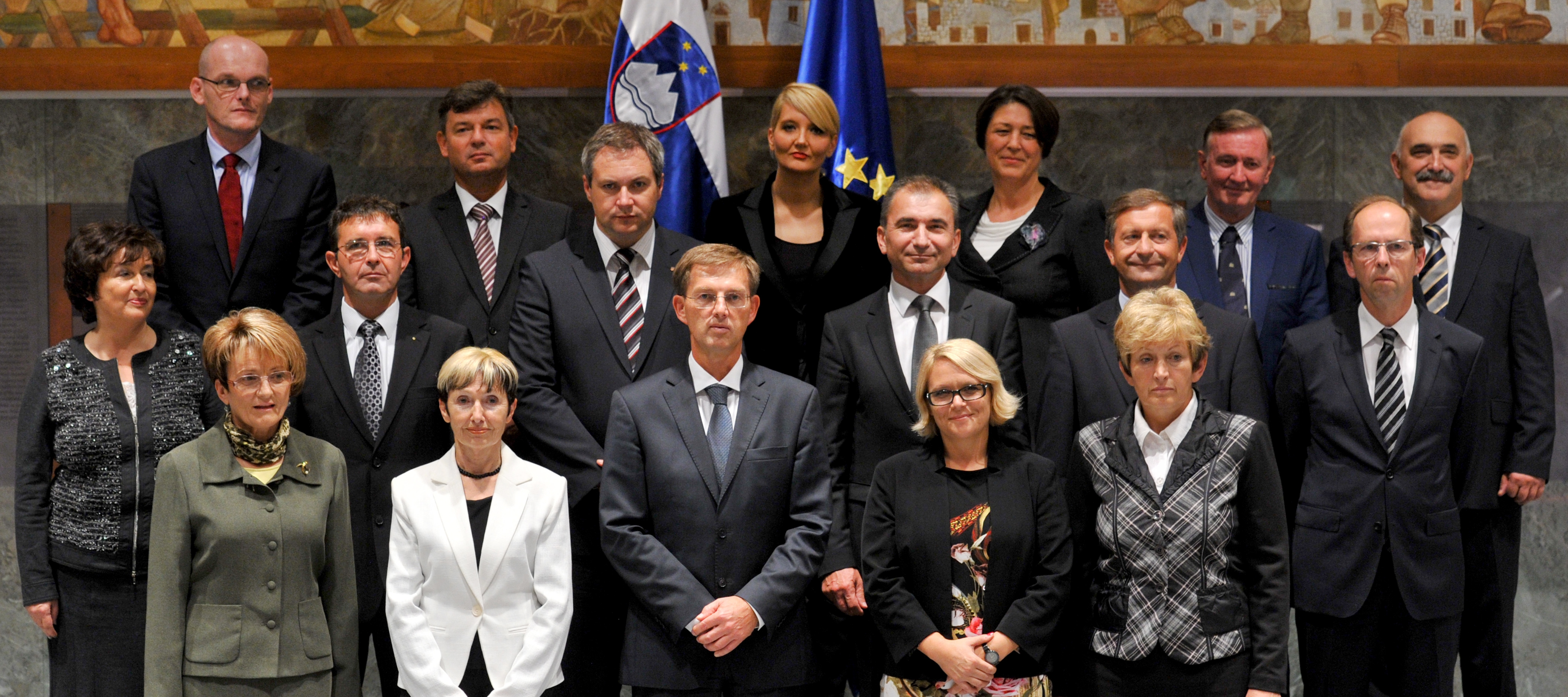 12th Slovenian Goverment, Miro Cerar as a prime ministerSlovenščina: 12. slovenska vlada, izrezek